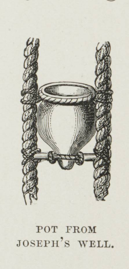 Illustration of a pot from Joseph's Well.